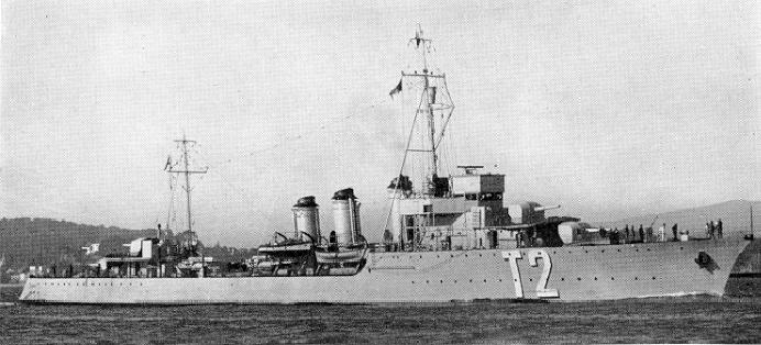 The French destroyer Adroit, ONI203 booklet for identification of ships of the French Navy, published by the Division of Naval Inteligence of the Navy Department of the United States (9 November 1942).